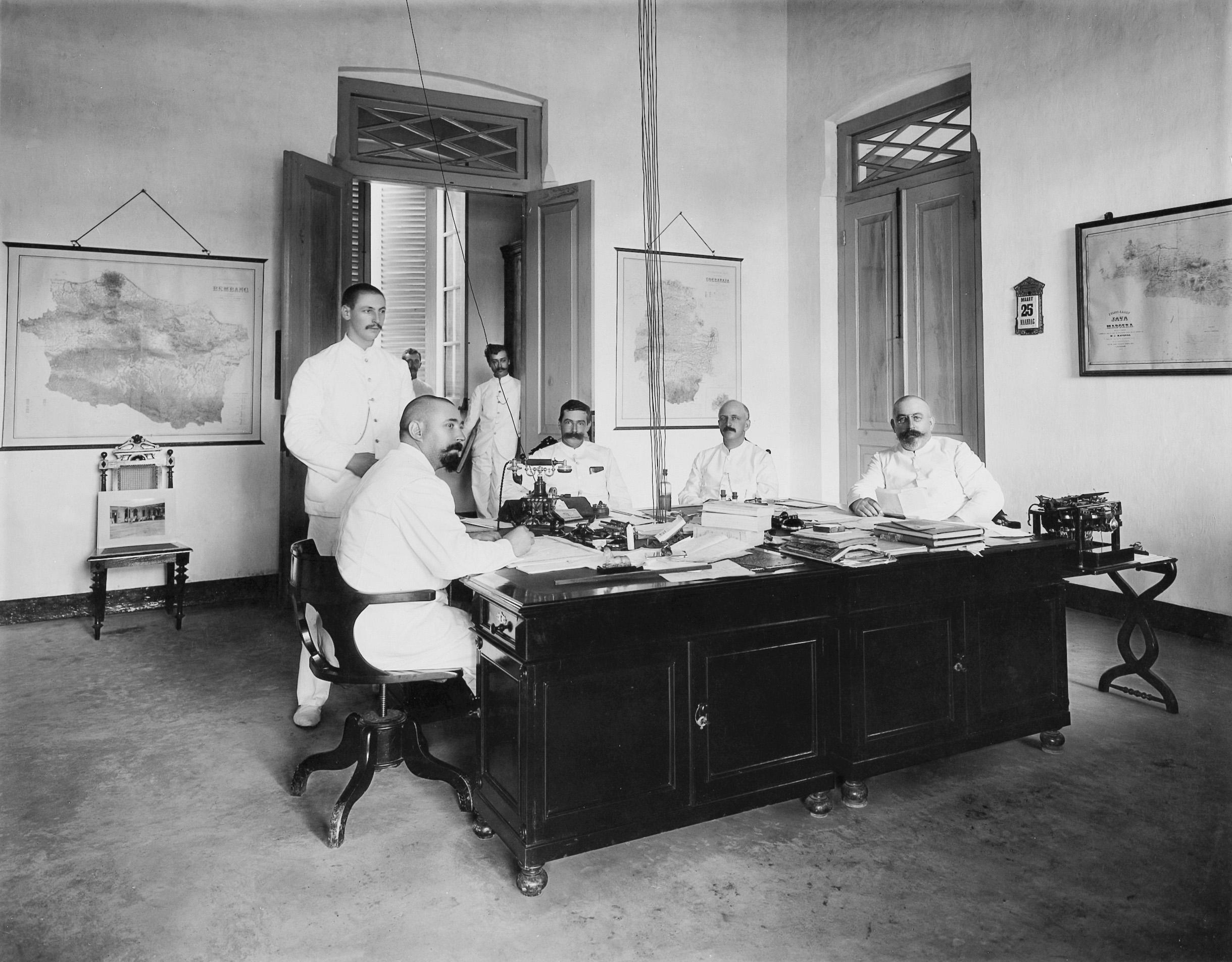 Executive Office of the Dordtsche Petroleum Company at Wonokromo, Surabaya, Java. At the table far left Jan Stoop and far right Adriaan Stoop. East Java, Indonesia, March 25, 1896.